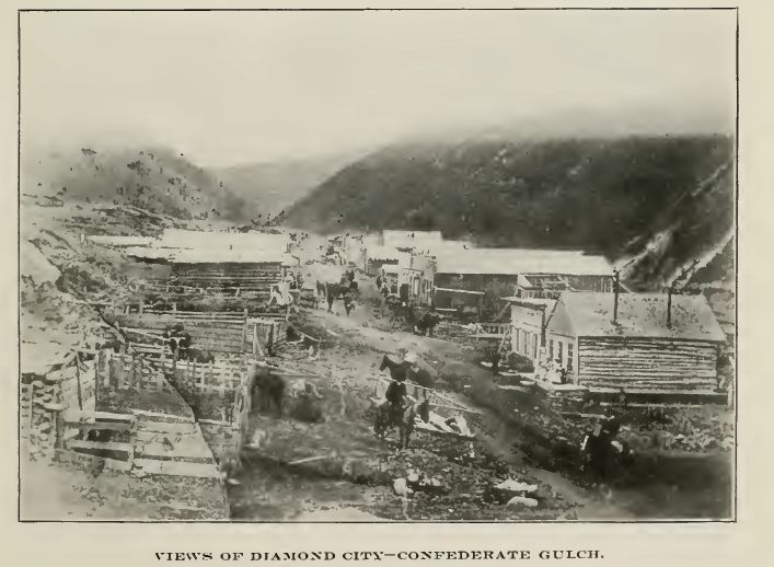 Diamond City, near Confederate Gulch in Montana, circa 1870. Present day ghost town in Meagher County, Montana.